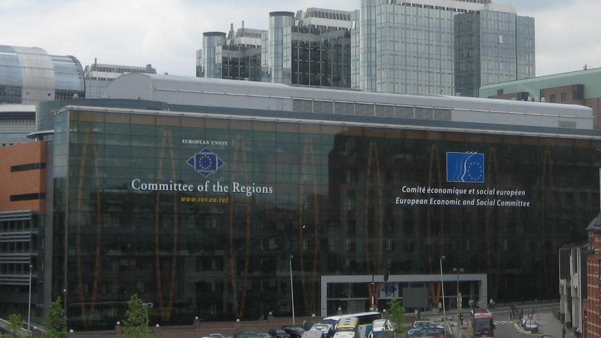 Committee of the Regions and European Economic and Social Committeee buiding in Brussels